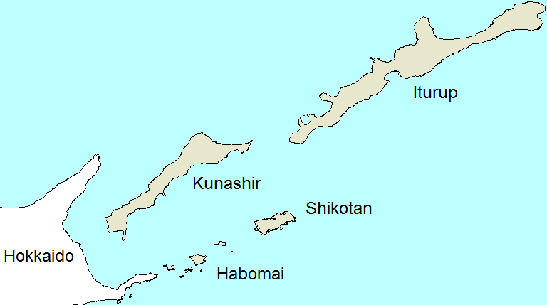 Kuril Islands (Northern Territories)